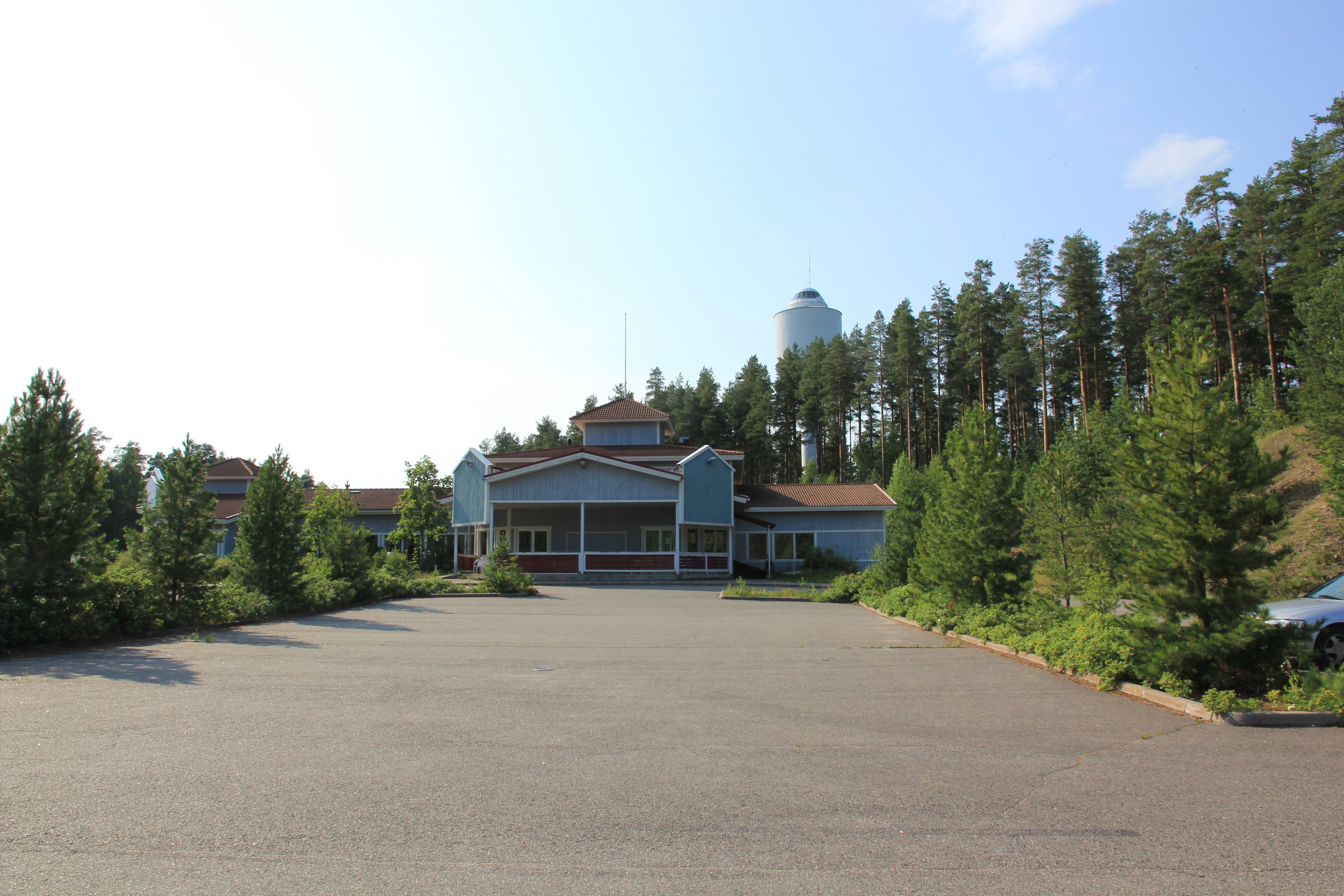 Punkaharju bowling alley and water tower.